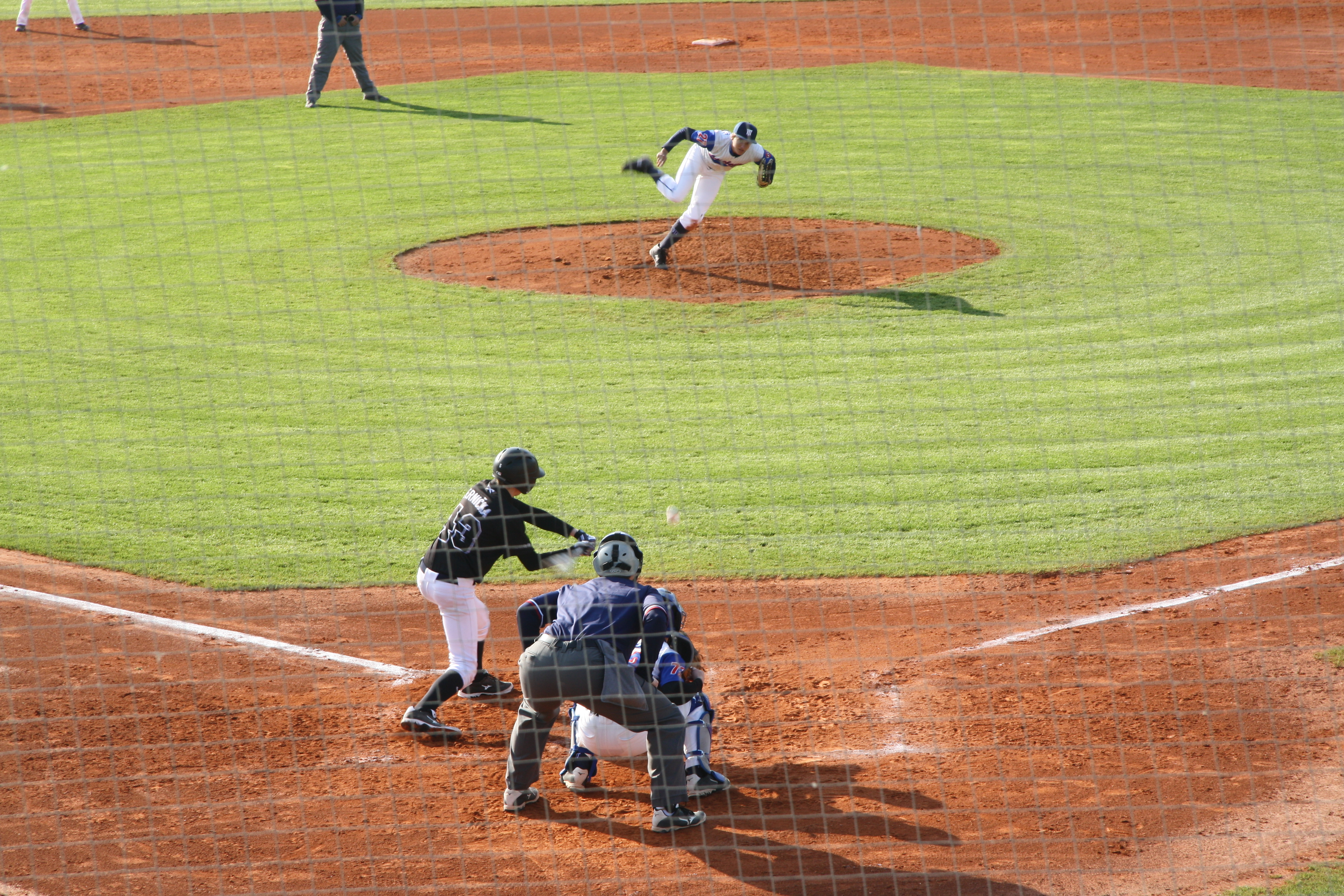 Player Draci Brno U17 at base in Třebíč, Třebíč District.